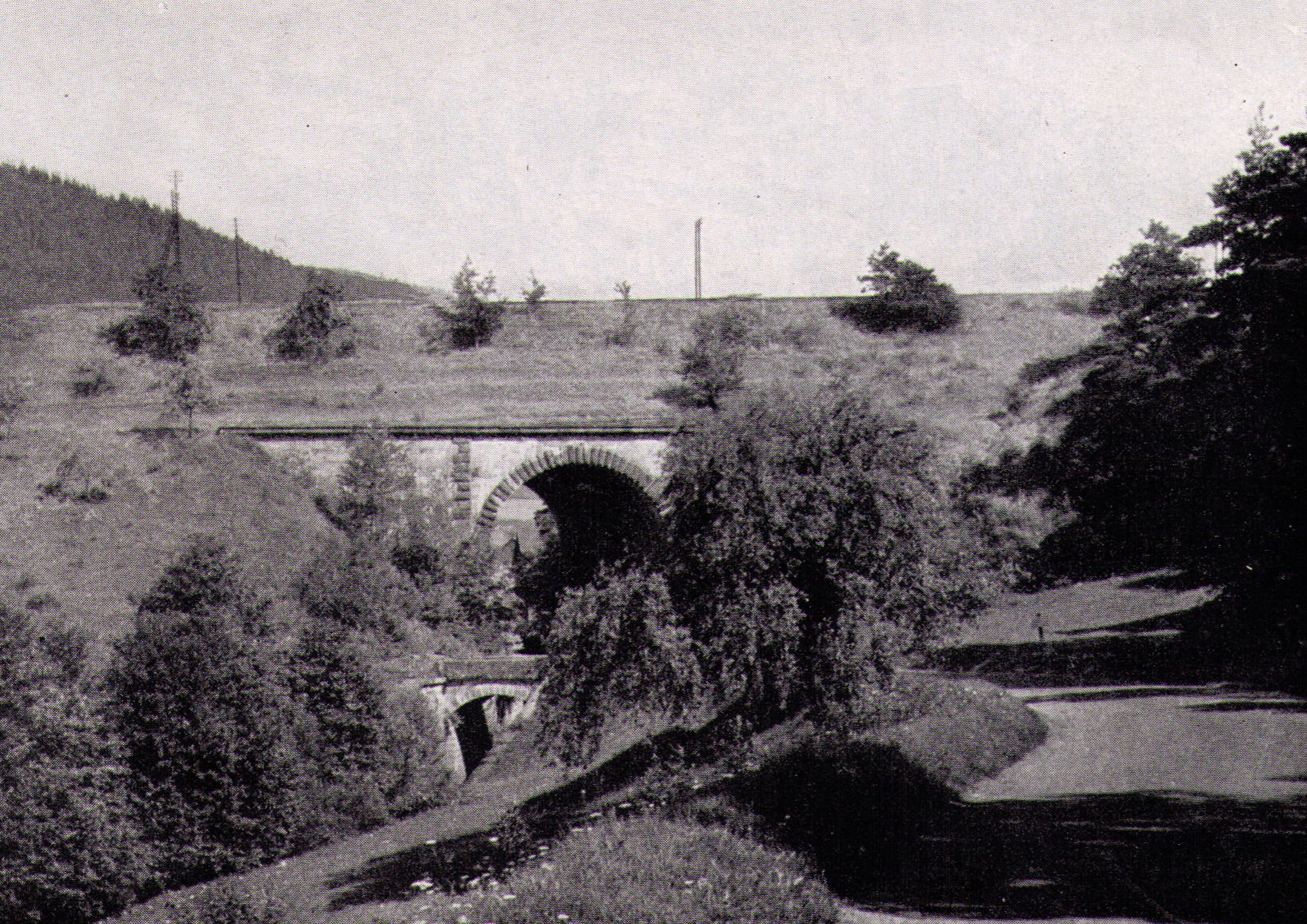 Underbridge as built by Holzmann in 1852